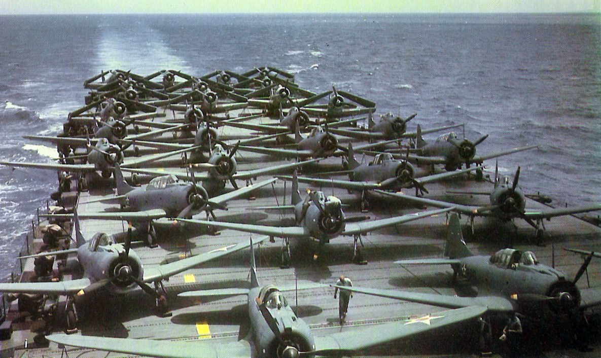 U.S. Navy Douglas SBD-2 Dauntless dive bombers and Douglas TBD-1 Devastator torpedo bombers (aft) on the flight deck of the aircraft carrier USS Enterprise (CV-6) in early 1942.